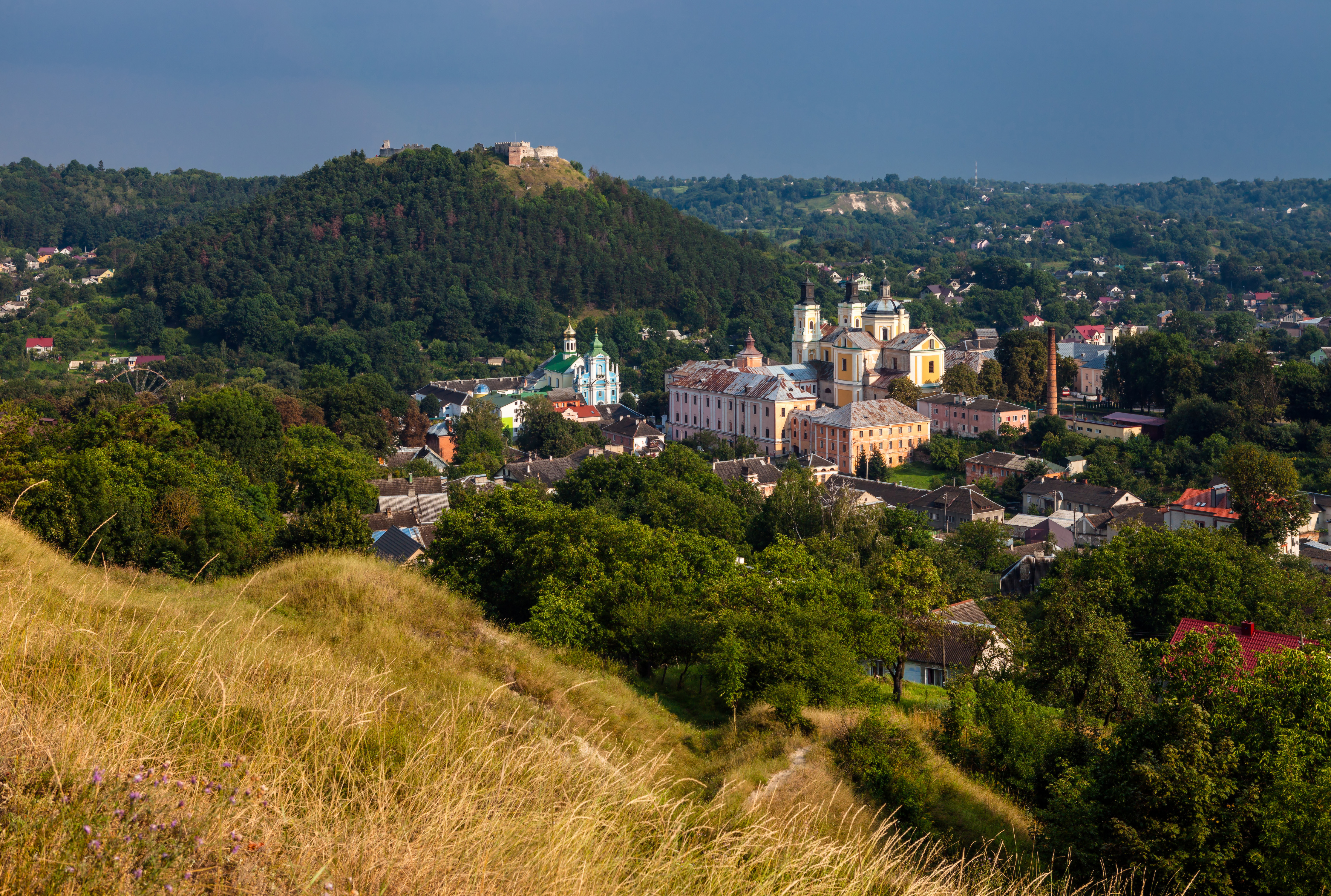 Saint Ignatius Loyola Church and the castle on Bona Hill in Kremenets